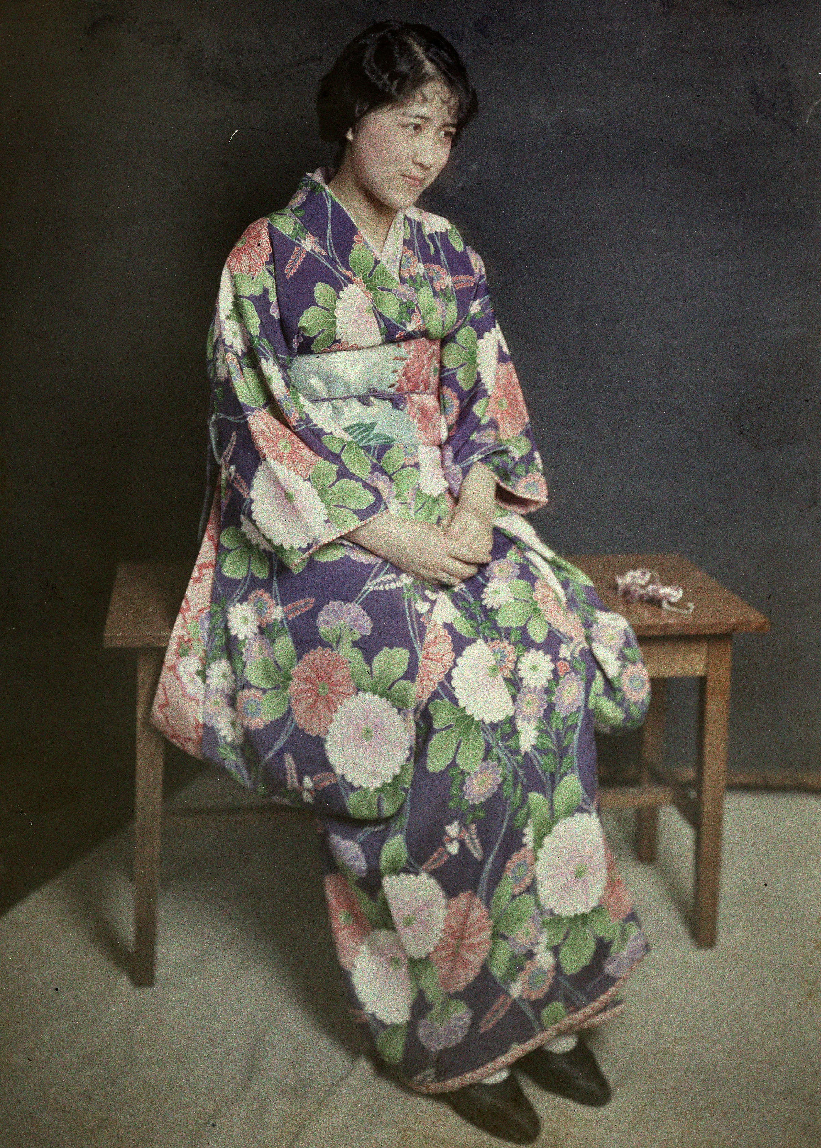 Original Collection: John Garman Photographic Collection (P 95) Item Number: P095:093 You can find this image by searching for the item number by clicking Want more? You can find more We're happy for you to share this digital image within the spirit of The Commons; however, certain restrictions on high quality reproductions of the original physical version may apply. To read more about what “no known restrictions” means, please visit the or contact staff at the OSU Special Collections & Archives Research Center for details.